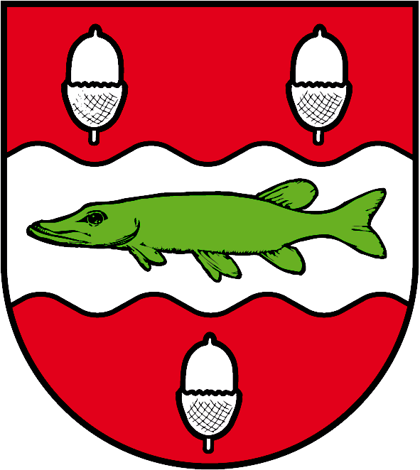 Coat of arms of Biederitz, Part of Biederitz